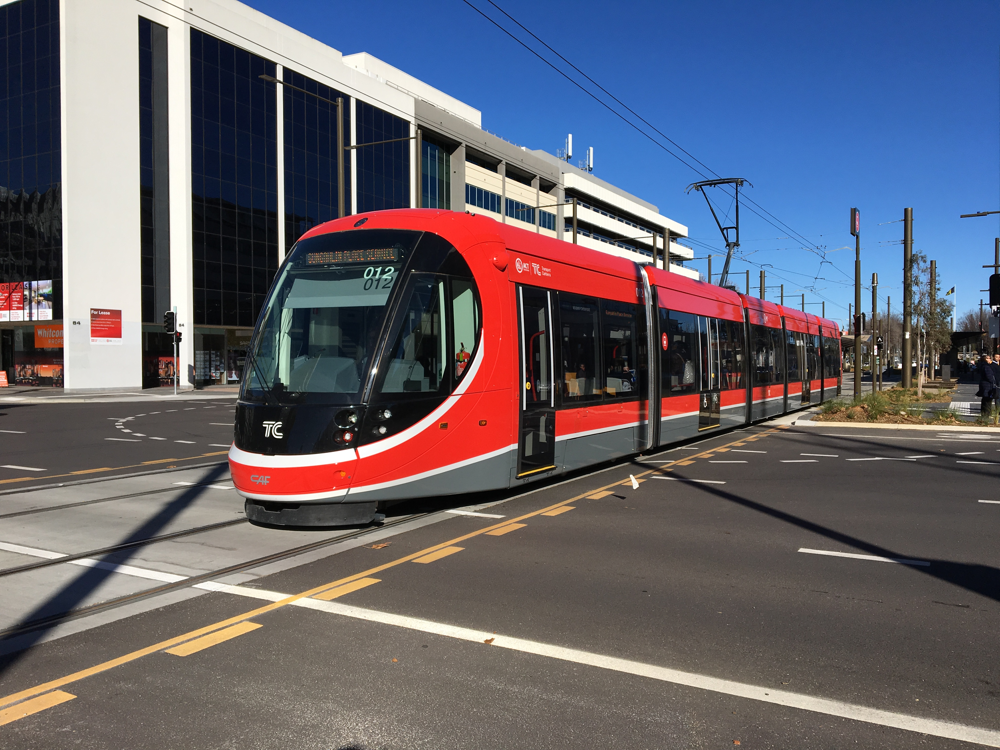 Urbos 3 departing Alinga Street light rail stop